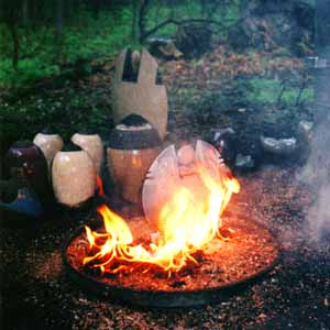 Demonstration of raku firing technique.